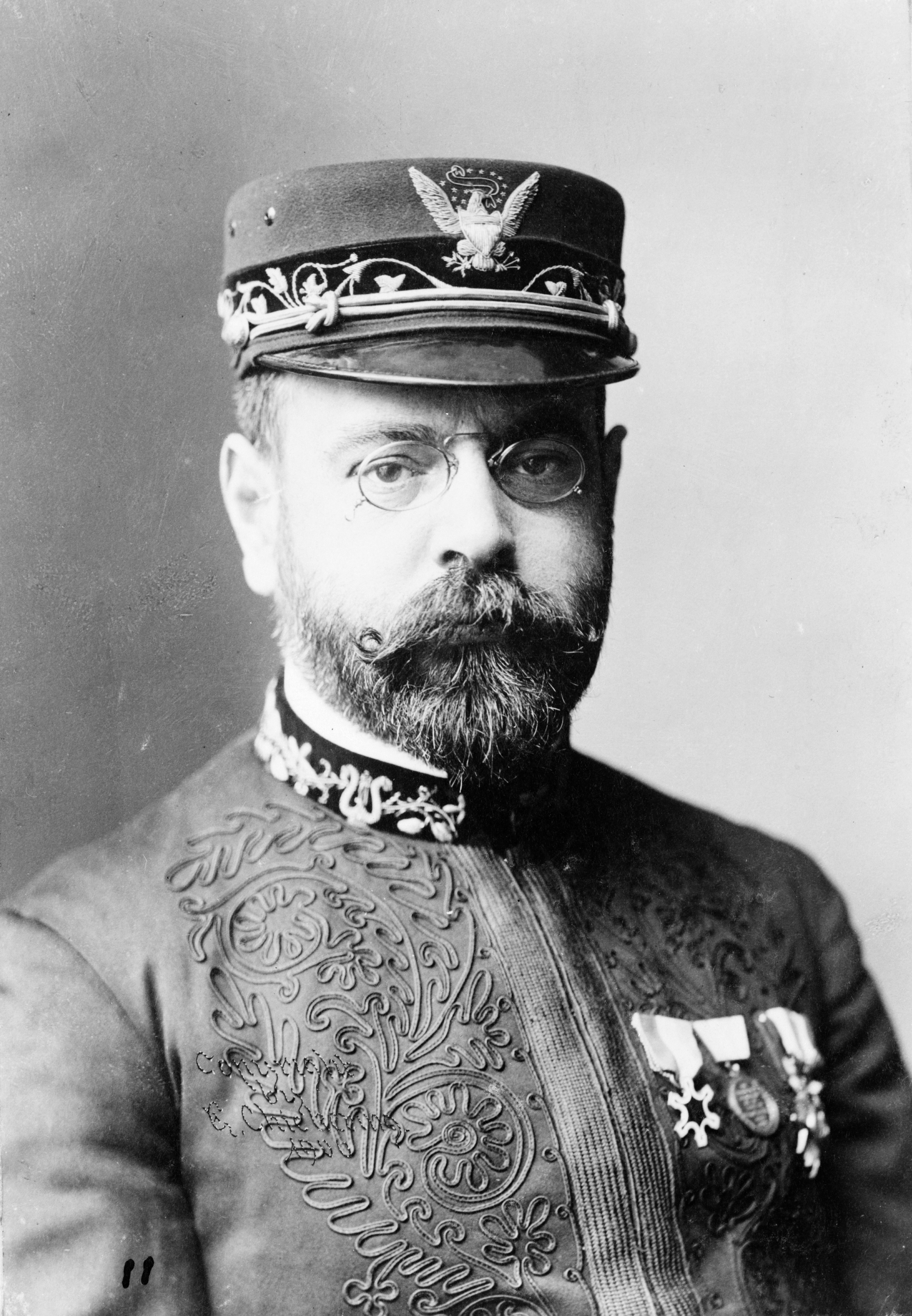 John Philip Sousa, head-and-shoulders portrait, facing slightly right.